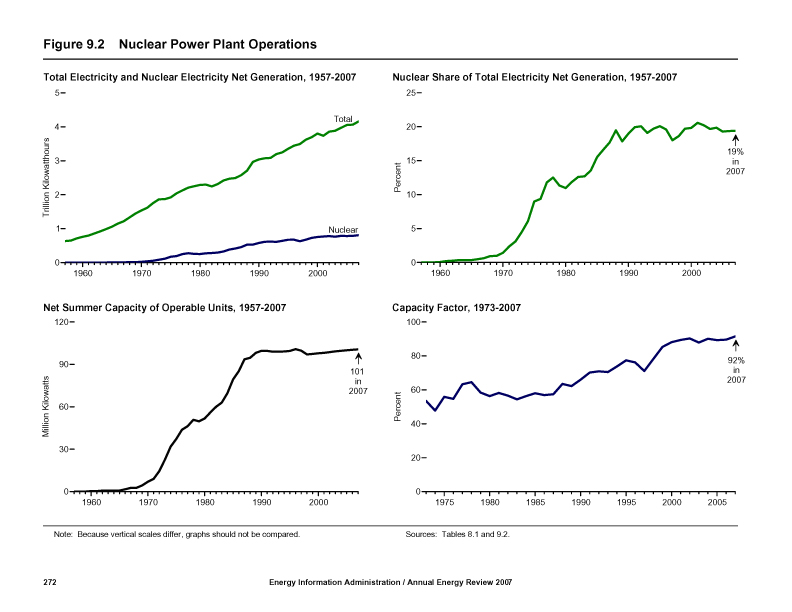 United States nuclear power plant operations since 1957